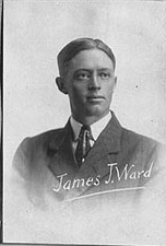 Whipple Spear Hall (1882-1942), Eugene B. Ely, John Alexander Douglas McCurdy, Glenn Curtiss, Bud Mars, James J. Ward, Charles F. Willard (1883-1977).